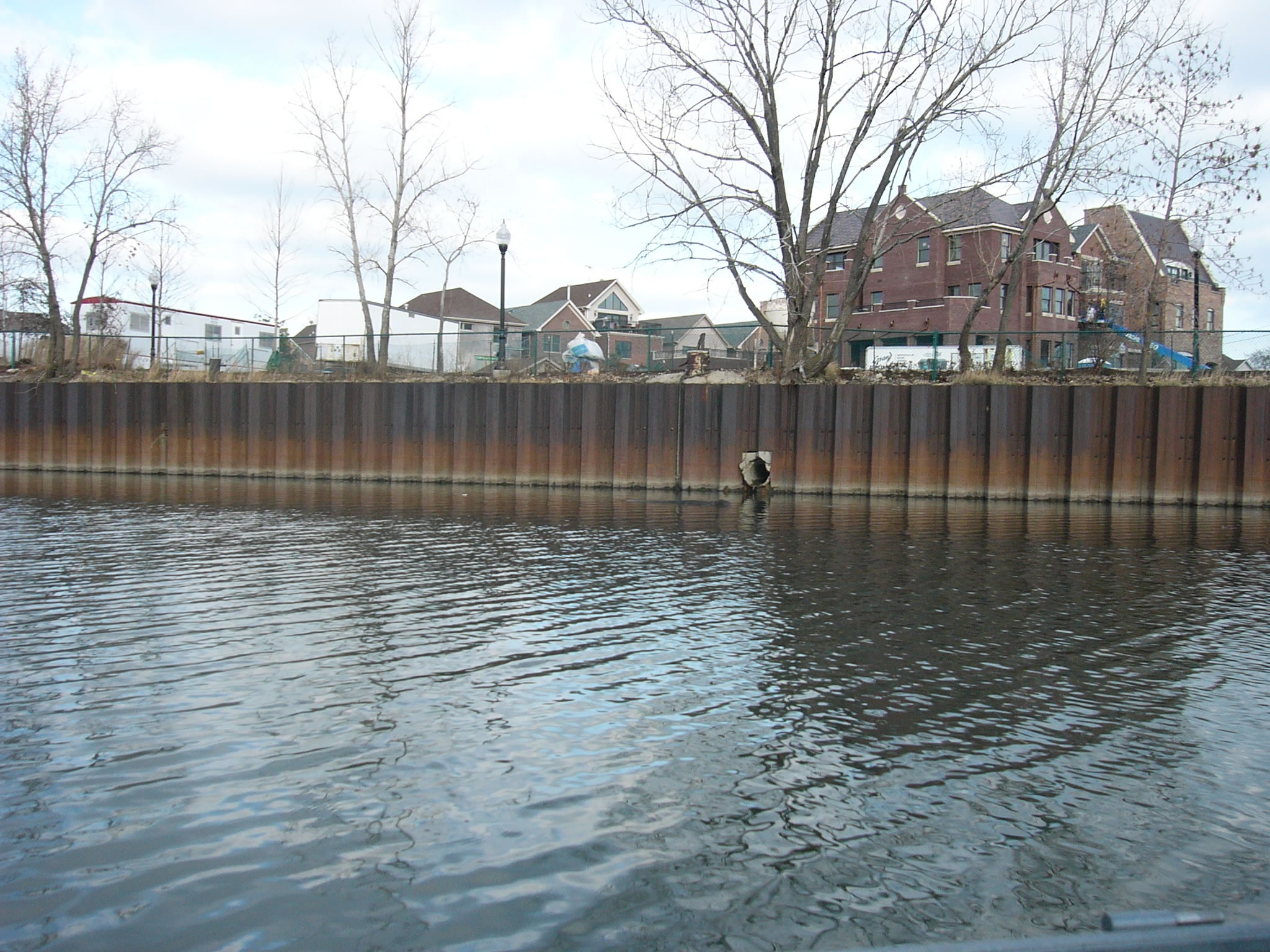 South Fork South Branch Chicago River, nicknamed "Bubbly Creek," and Bridgeport Village, Chicago